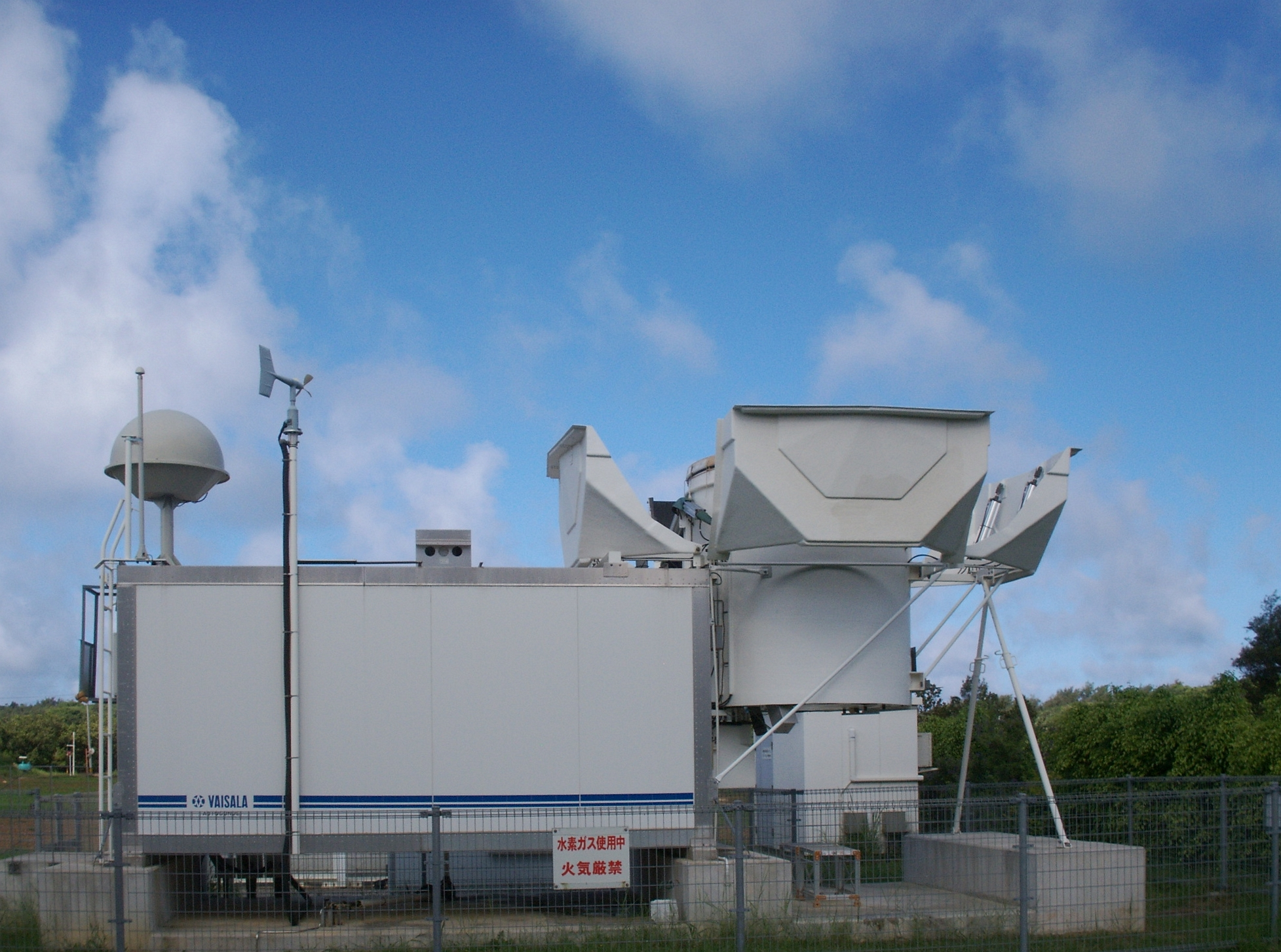 A weather post in Minamidaito Village in Okinawa Prefecture, Japan